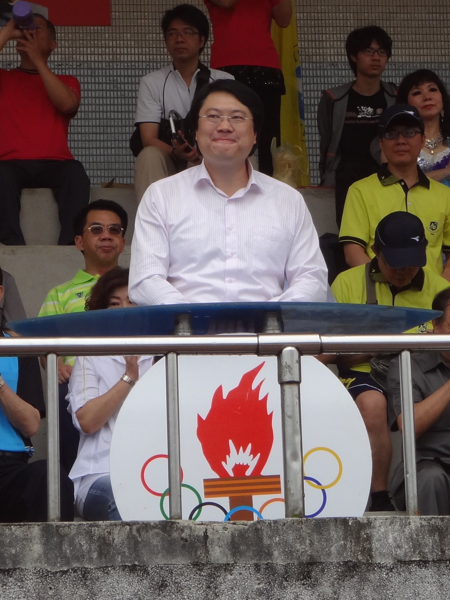 Lin Yu-chang's speech at 2016 Keelung City Athletic Meeting.